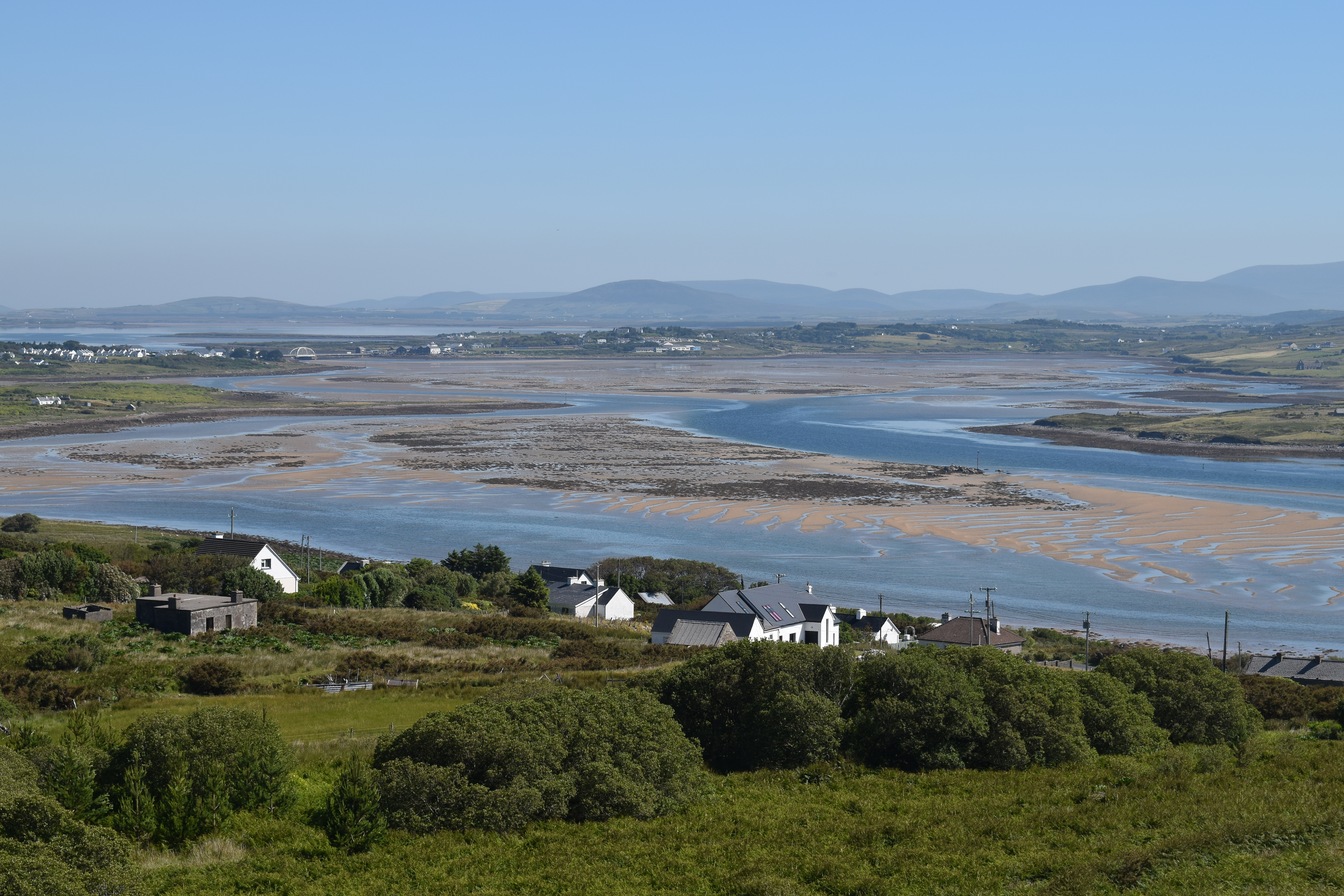 Achill Sound